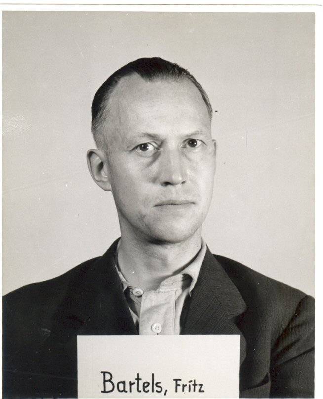 Friedrich Bartels as a witness during the Nuremberg Trials.